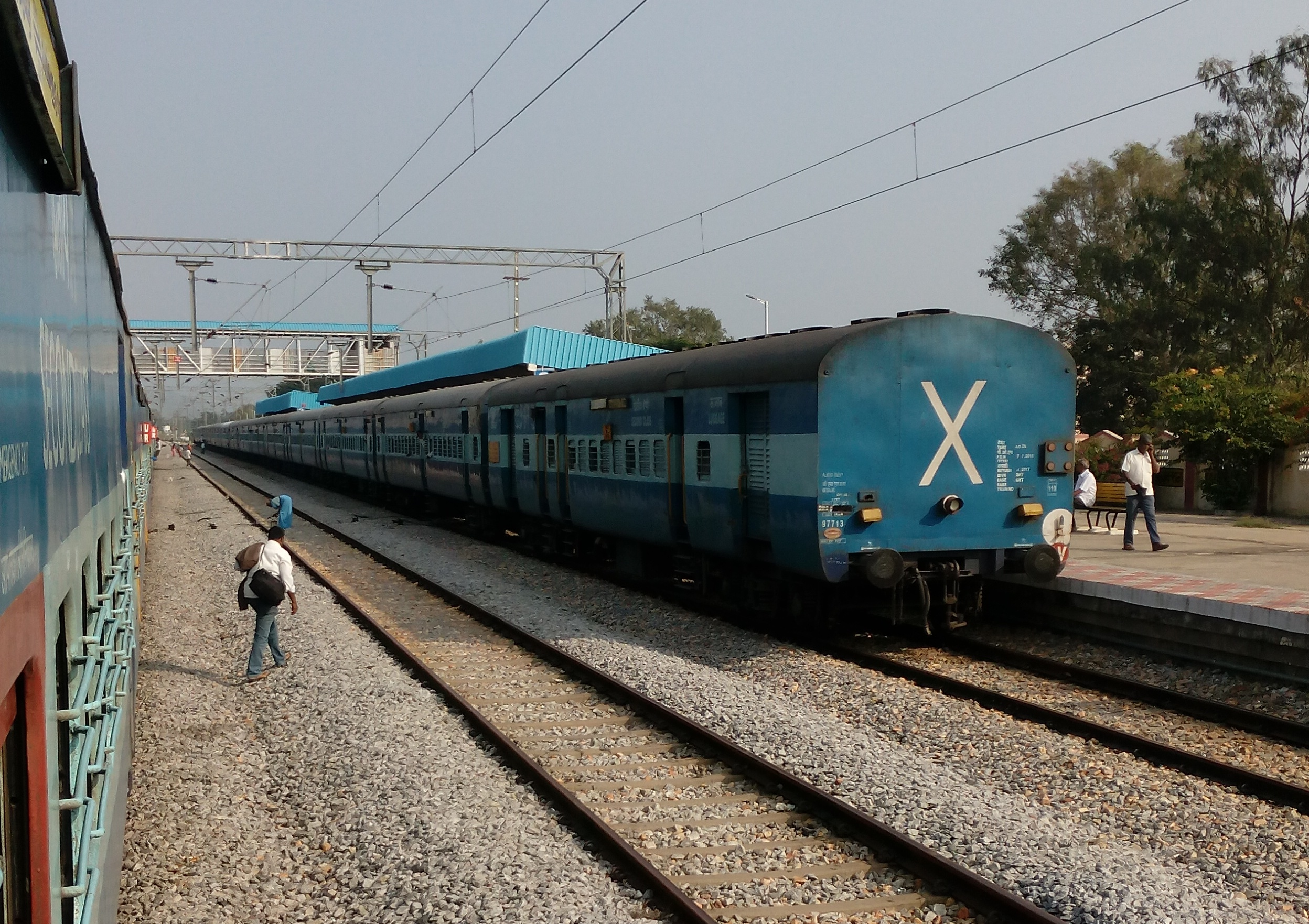 Tpty Bound Pamani Express on Pf